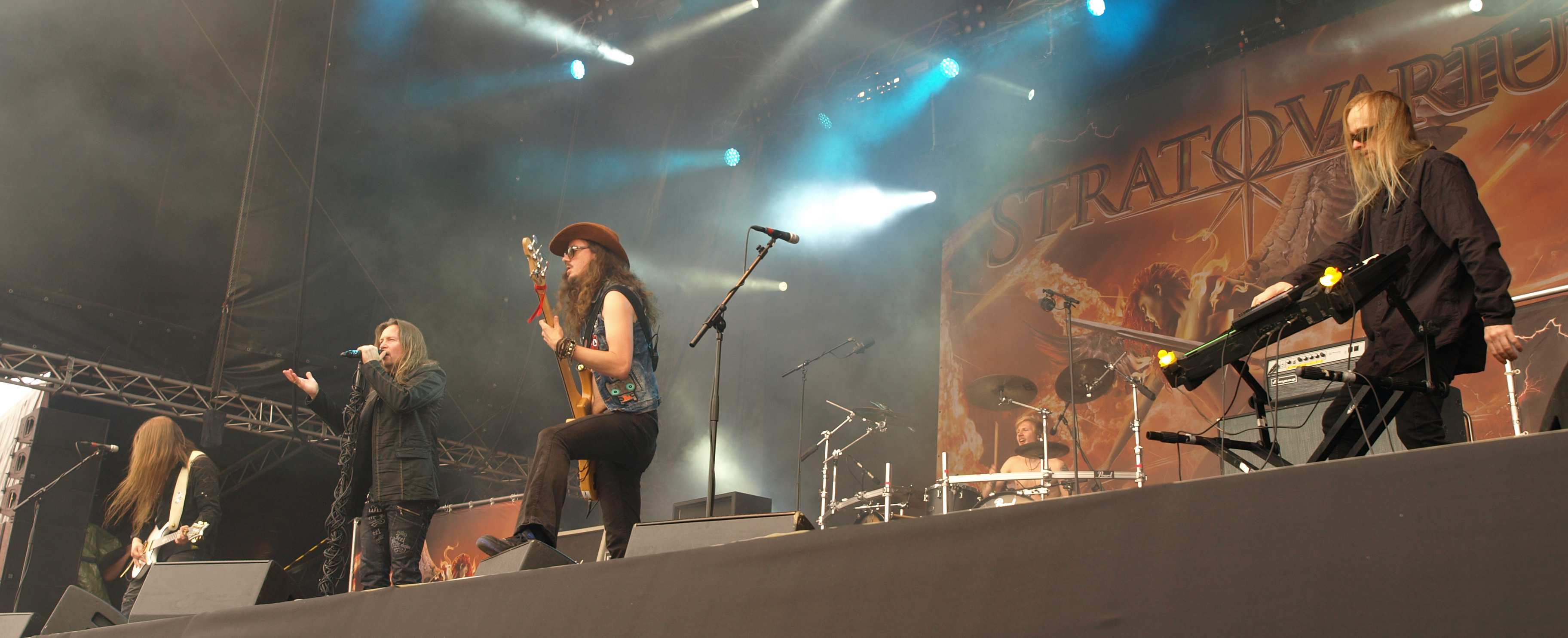 Finnish band Stratovarius at Tuska Open Air 2013